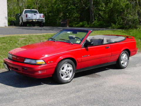 1993 Pontiac Sunbird convertible photographed by runaway_nj in New Jersey, USA.